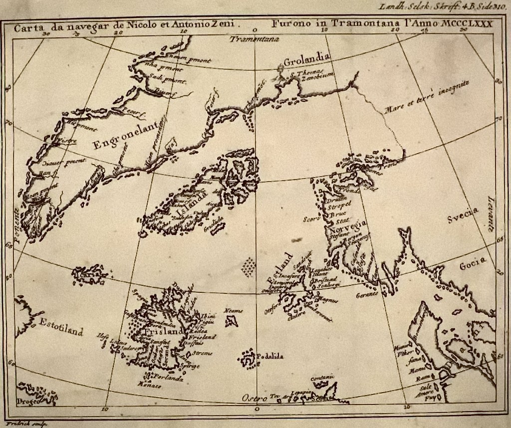 A reproduction of the Zeno map (original by Nicolo Zeno 1558) published by Henrich Peter von Eggers in the 1793 book Priisskrift om Grønlands Østerbygds sande Beliggenhed